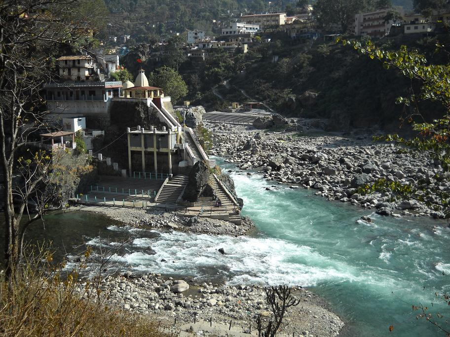 The confluence of the Alaknanda (background) and Mandakini (foreground) rivers in the outer Himalayas at Rudraprayag, Uttarakhand, India